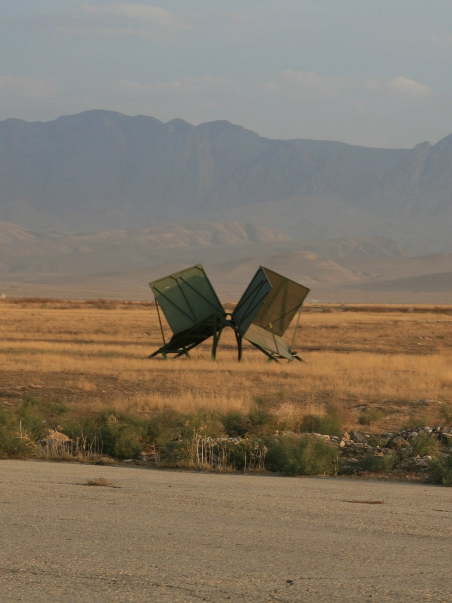 Corner reflectors as approach flight reference for airborne radars.